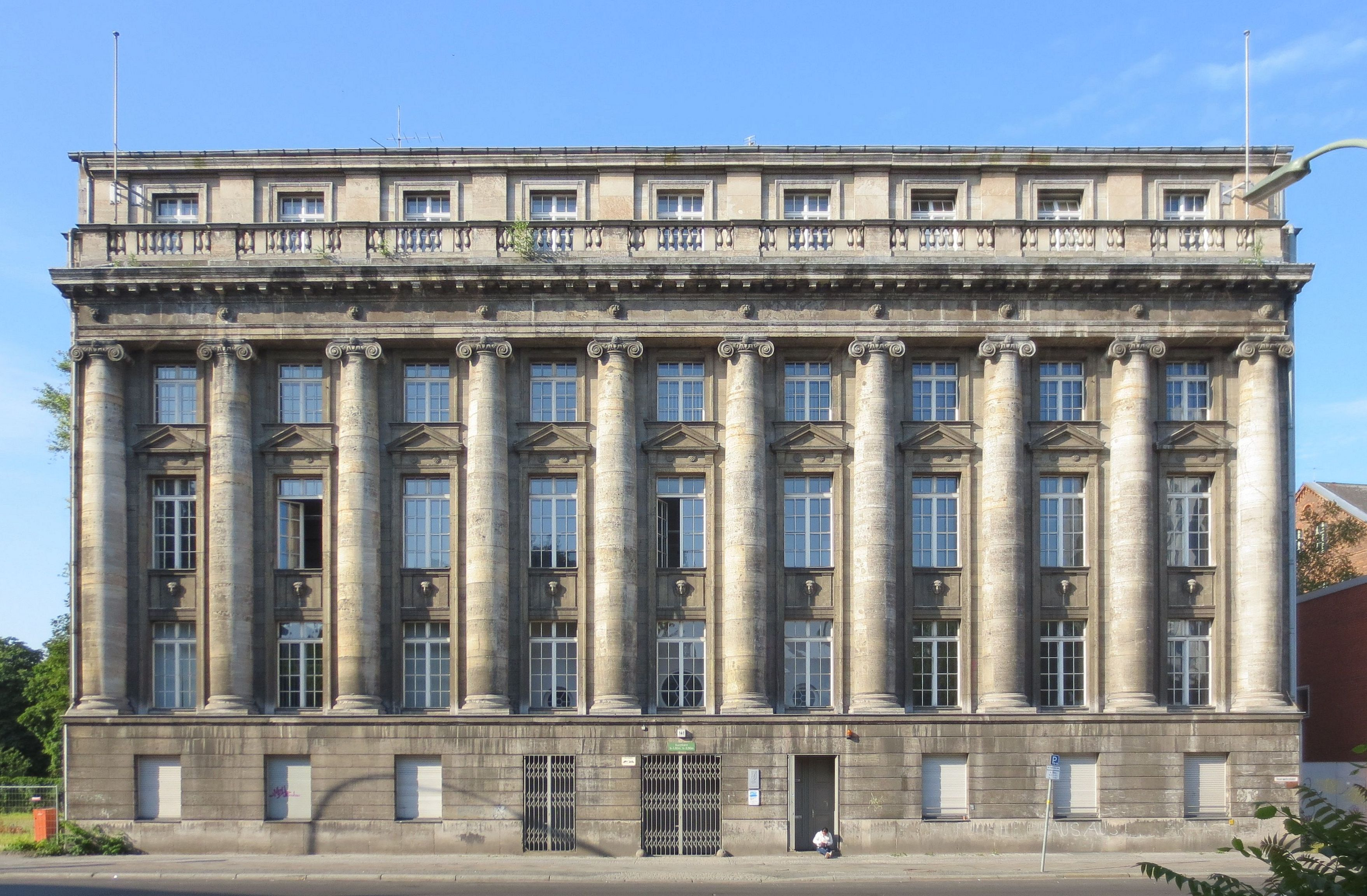 "The "Haus Kurfürstenstraße" of the Beuth-Hochschule für Technik (University of Applied Sciences), Kurfürstenstraße 141 in Berlin-Schöneberg. It was built from 1911 to 1914 to a design by Ludwig Hoffmann for the Baugewerkschule Berlin and is a cultural heritage monument.